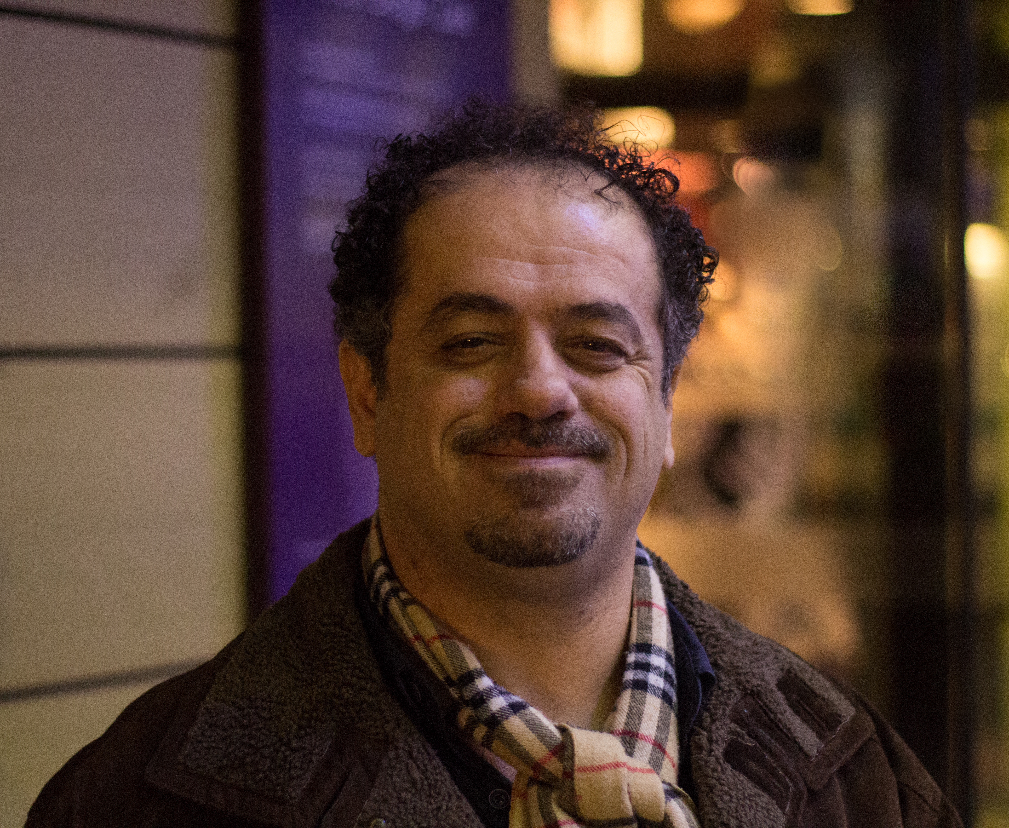 Ali Sammoury at the 45th International Film Festival Rotterdam to promoto "Halal Love (and Sex)"